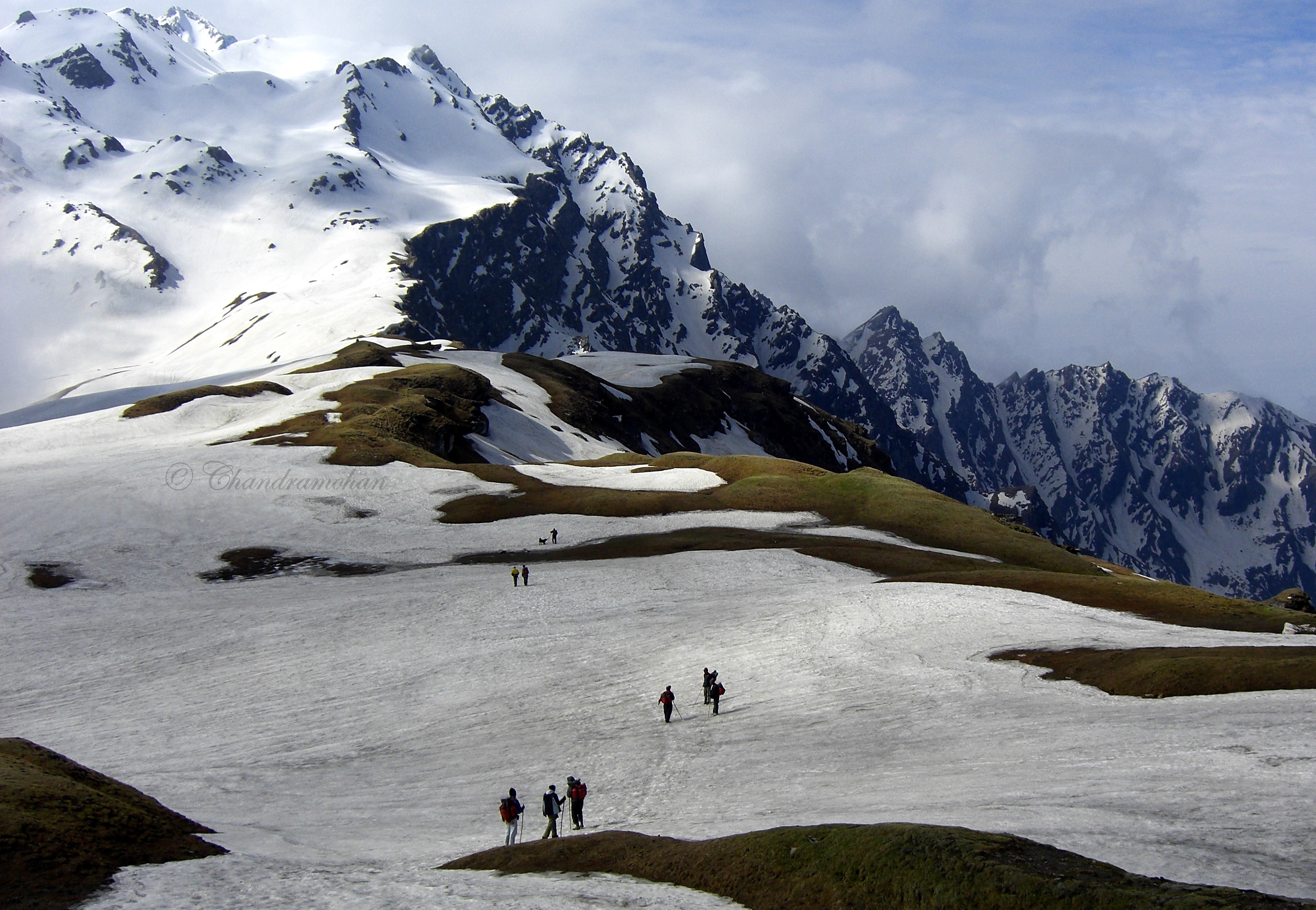 This shot was taken on the 8th day of our trek when we were walking on the snow clad mountain which looked amazingly beautiful. One can see the Mighty Mountain and compare the size with the people. Its just a feast for our eyes..